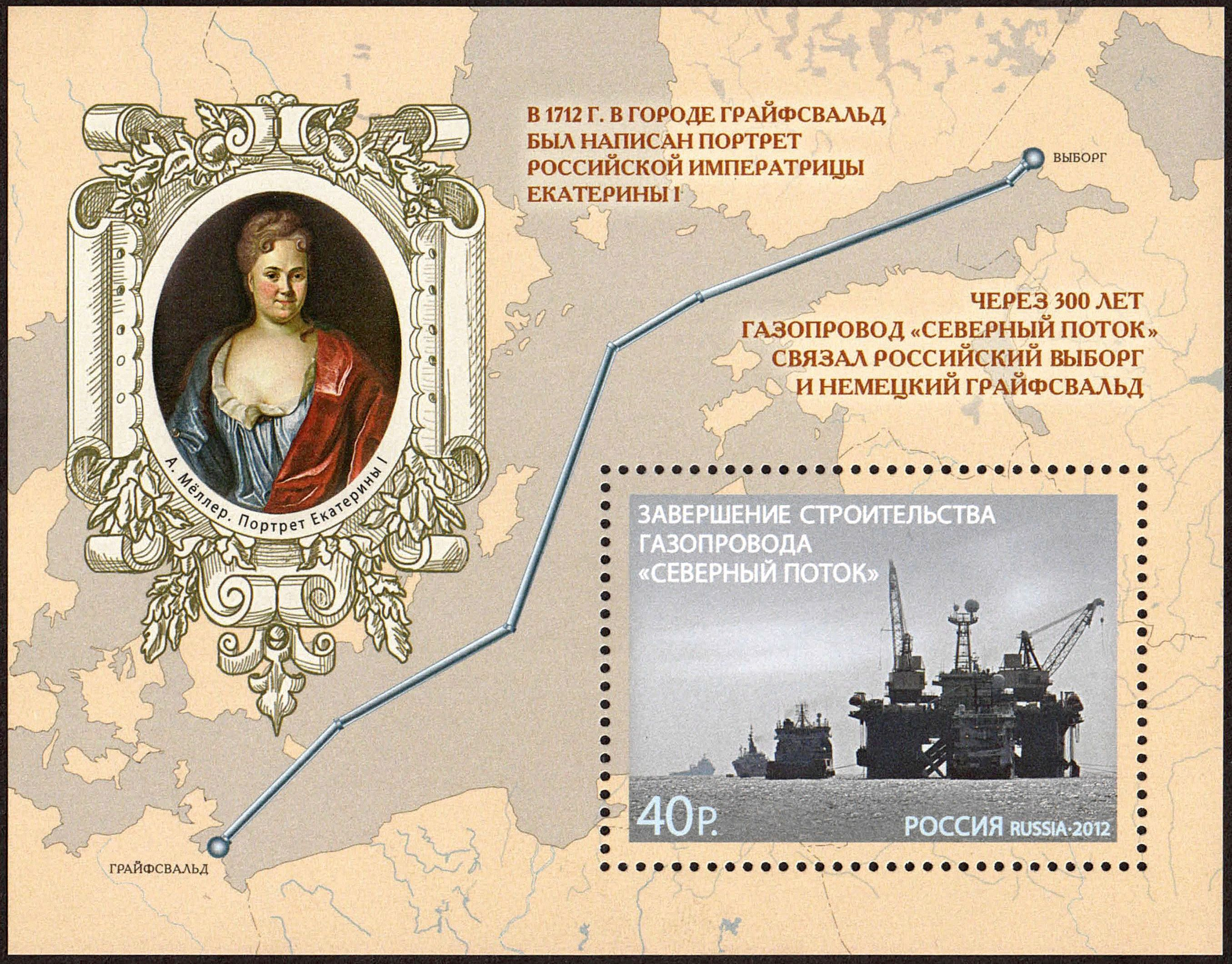 The completion of the construction of the gas pipeline Nord Stream.The souvenir sheet of Russia, 1 stamp×40.00 Rubles, 5 October 2012, PTC Marka Catalogue No 1639. Coated paper. Offset printing. Perforation: frame 12. The size of the souvenir sheet: 113×88 mm. The size of the stamp: 50×37 mm. Print run: 85,000. The stamp: the pipelay vessel Castoro Sei.The margins of the souvenir sheet: The Portrait of Empress Catherine I of Russia[1] by Andreas Møller (1684–1762(?)). 1712. State Hermitage. The map of Baltic Sea with the location of the pipeline Nord Stream. The text: “In 1712 the portrait of the Russian Empress Catherine I was painted in Greifswald. 300 years later the gas pipeline Nord Stream linked Russian Vyborg and German Greifswald”.